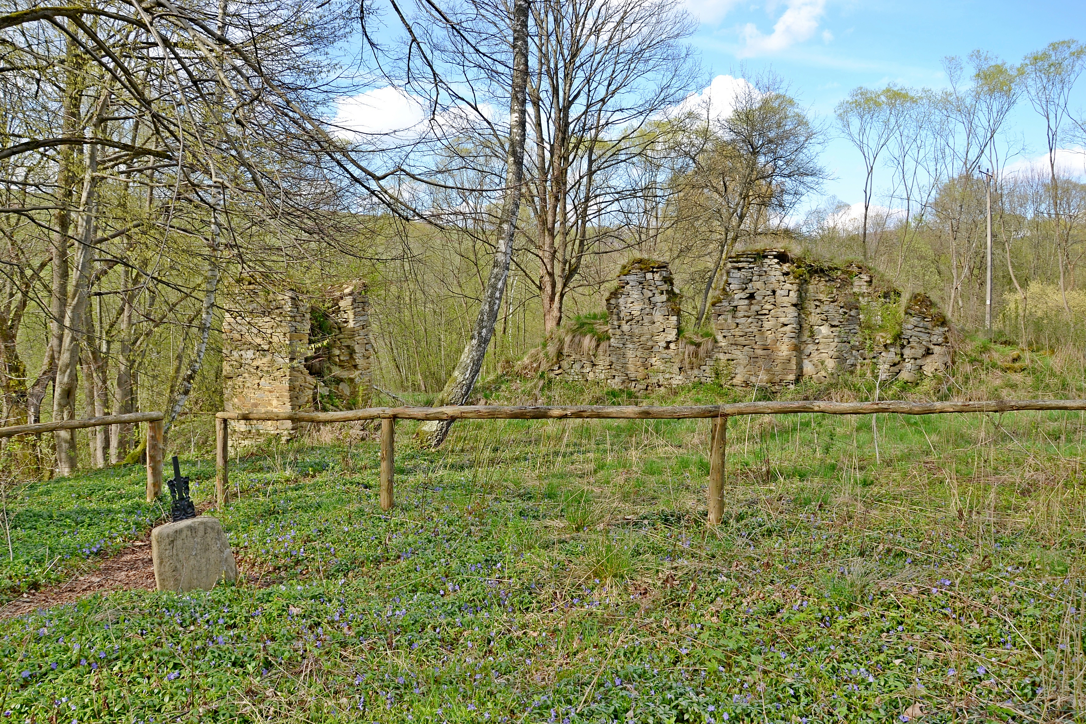 Hulskie (Гільське, 1977-81 Stanisławów) - a place where there was an orthodox church ("cerkiwsko")